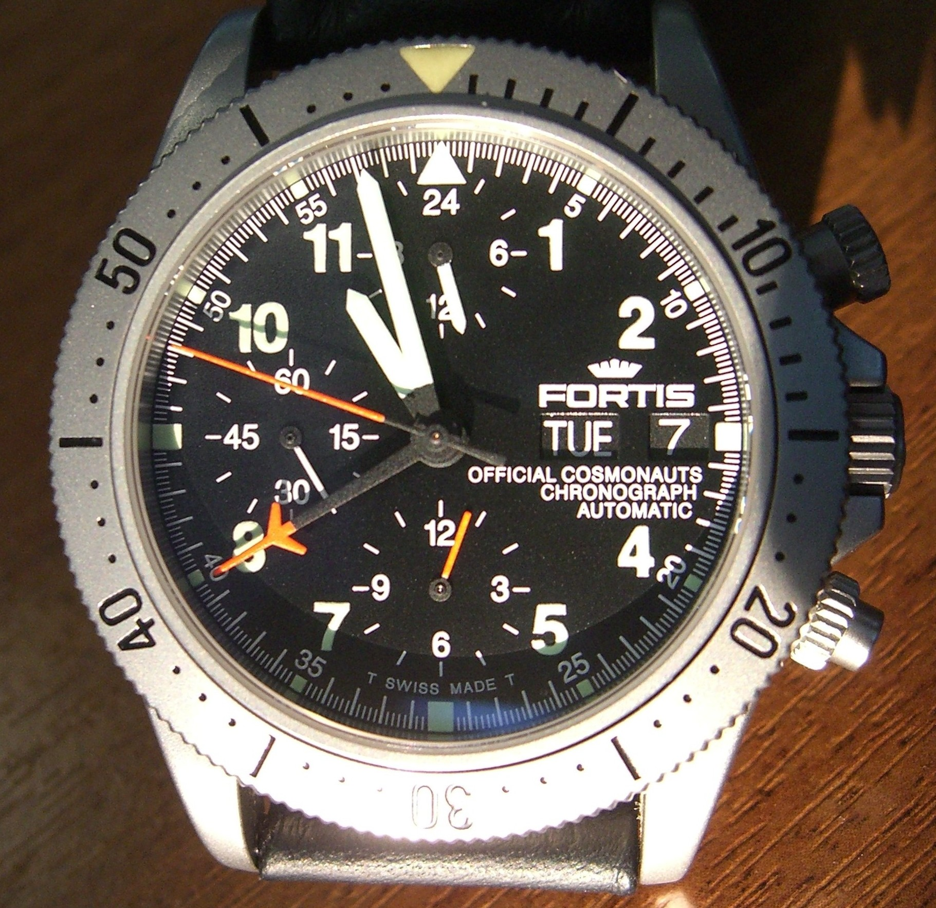 Fortis Official Cosmonauts Chronograph Automatic photo. Lemania 5100 ebauche.